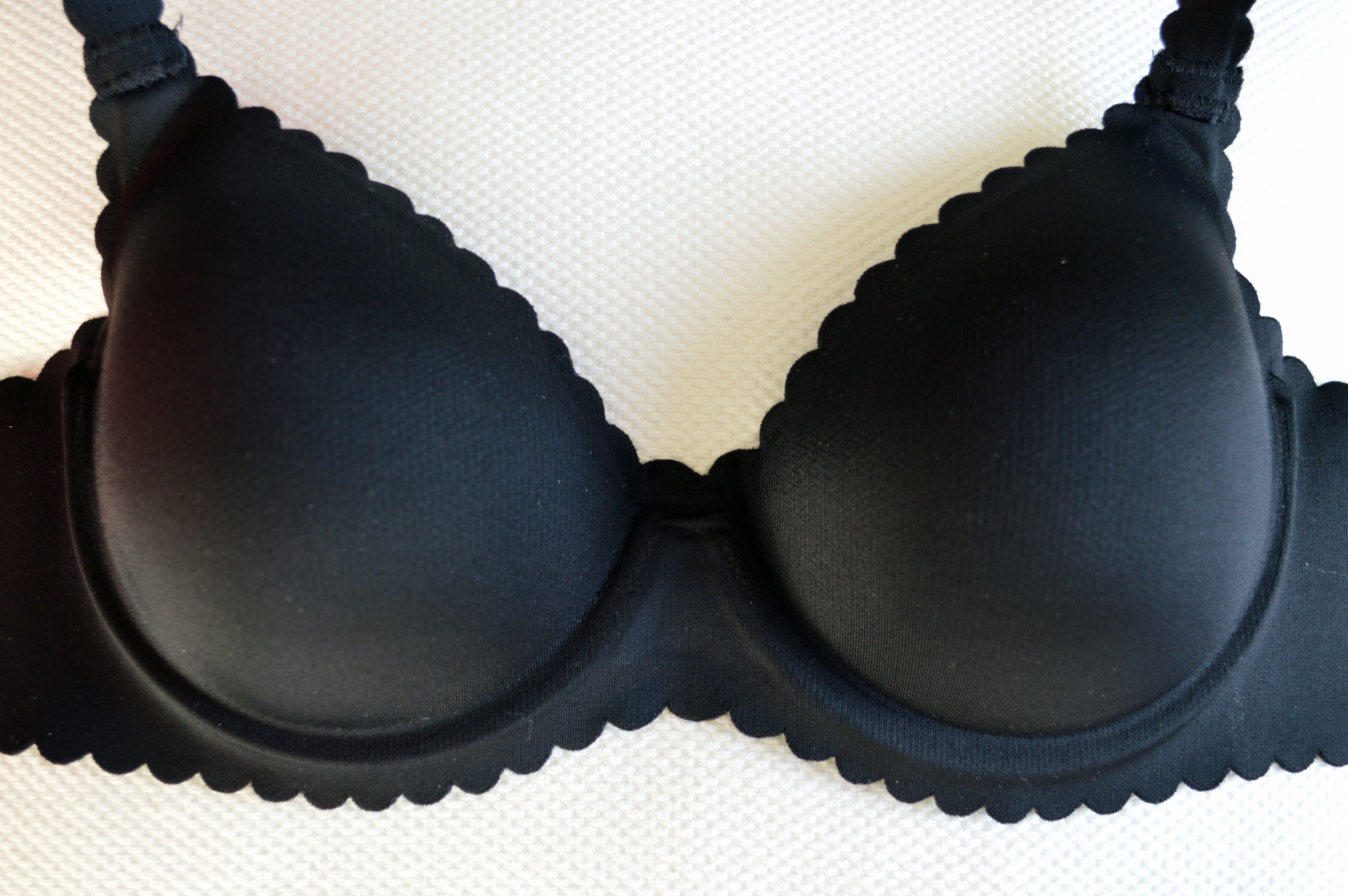 Seamless black T-shirt bra